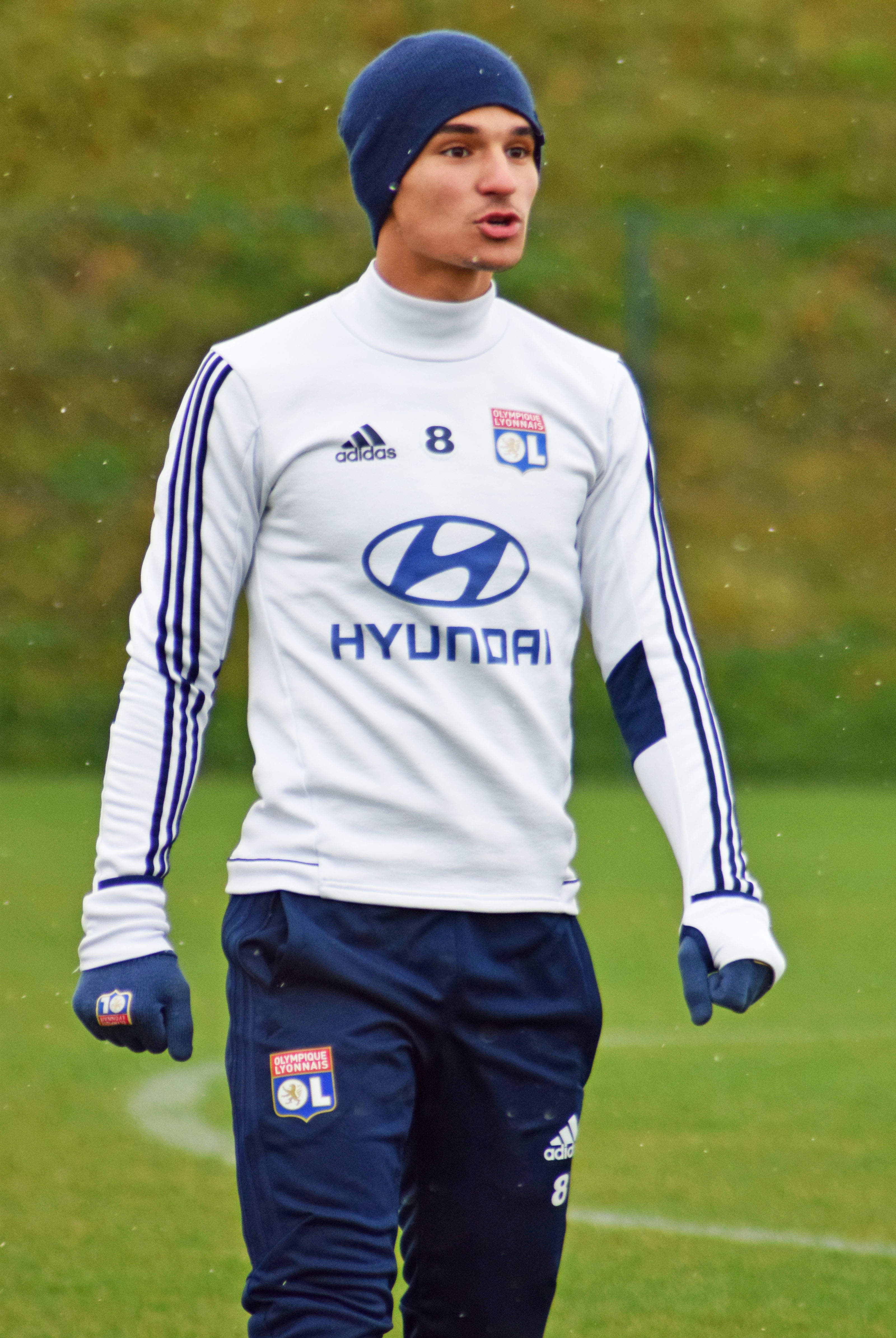 Houssem Aouar in training with Olympique Lyon in 2017.